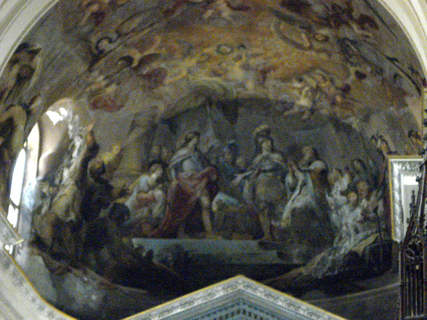 Cathedral of Palermo, Choir. Apse fresco with Robert Guiscard and Roger, Norman Brothers ( 1802 ), by Mariano Rossi.